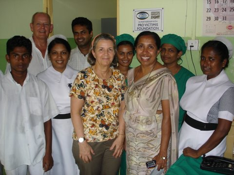 Michele Claudel (founder) and Roger Biggs (CEO) with Dr Arukgoda, Batticaloa, Sri Lanka (2006).